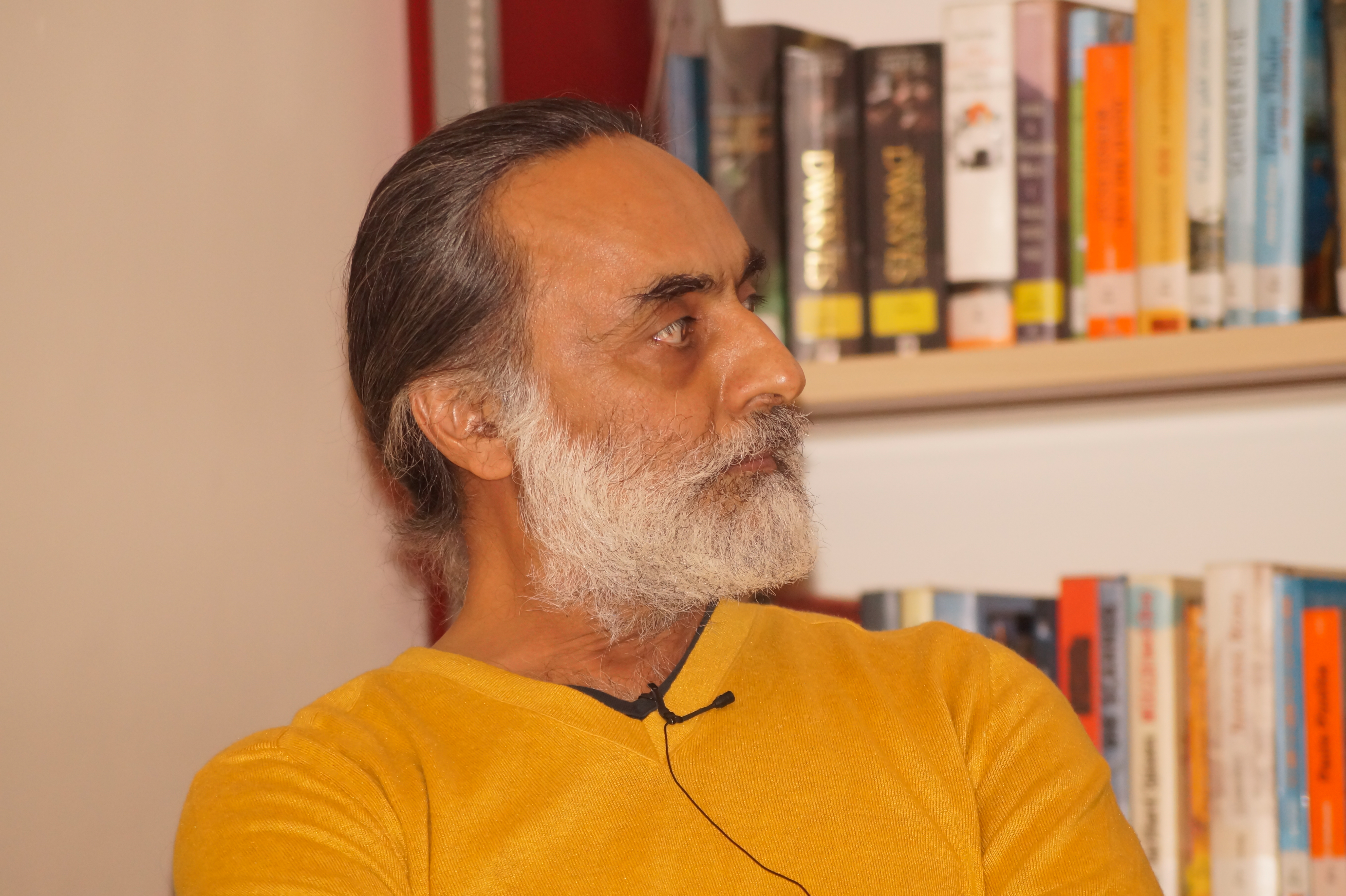 Navtej Johar at Delhi Queer Fest 2016.